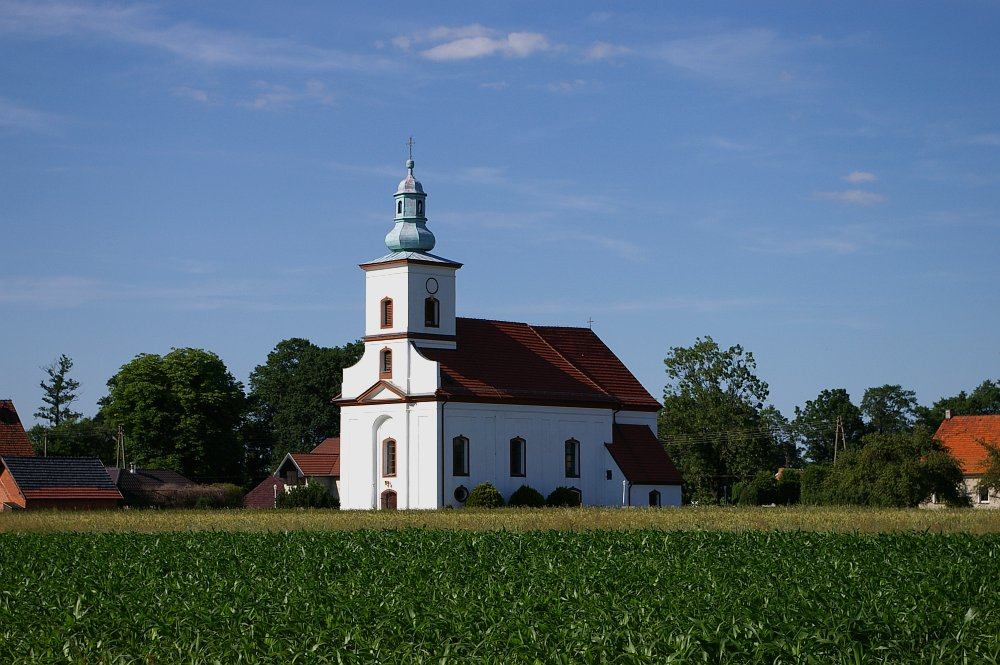 St. Matthew Church in Kobylno, Opole voivodship, Poland